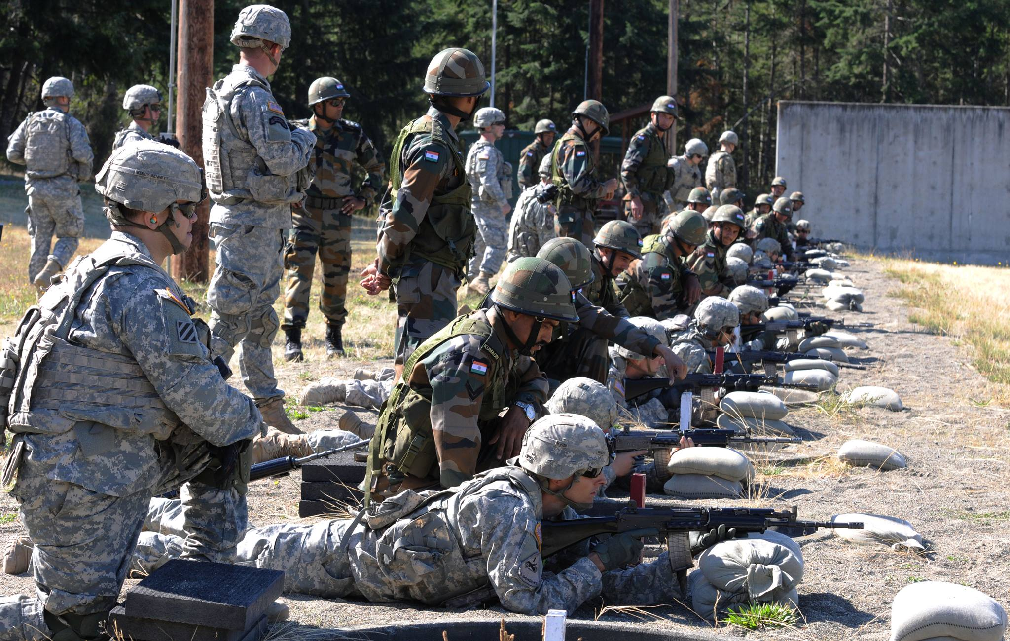 U.S. Soldiers with the 3rd Brigade, 2nd Infantry Division and Indian Army soldiers with the 6th Battalion of the Kumaon Regiment, fire each other’s weapons during Yudh Abhyas 15 at Joint Base Lewis-McChord, Wash., Sept. 12.